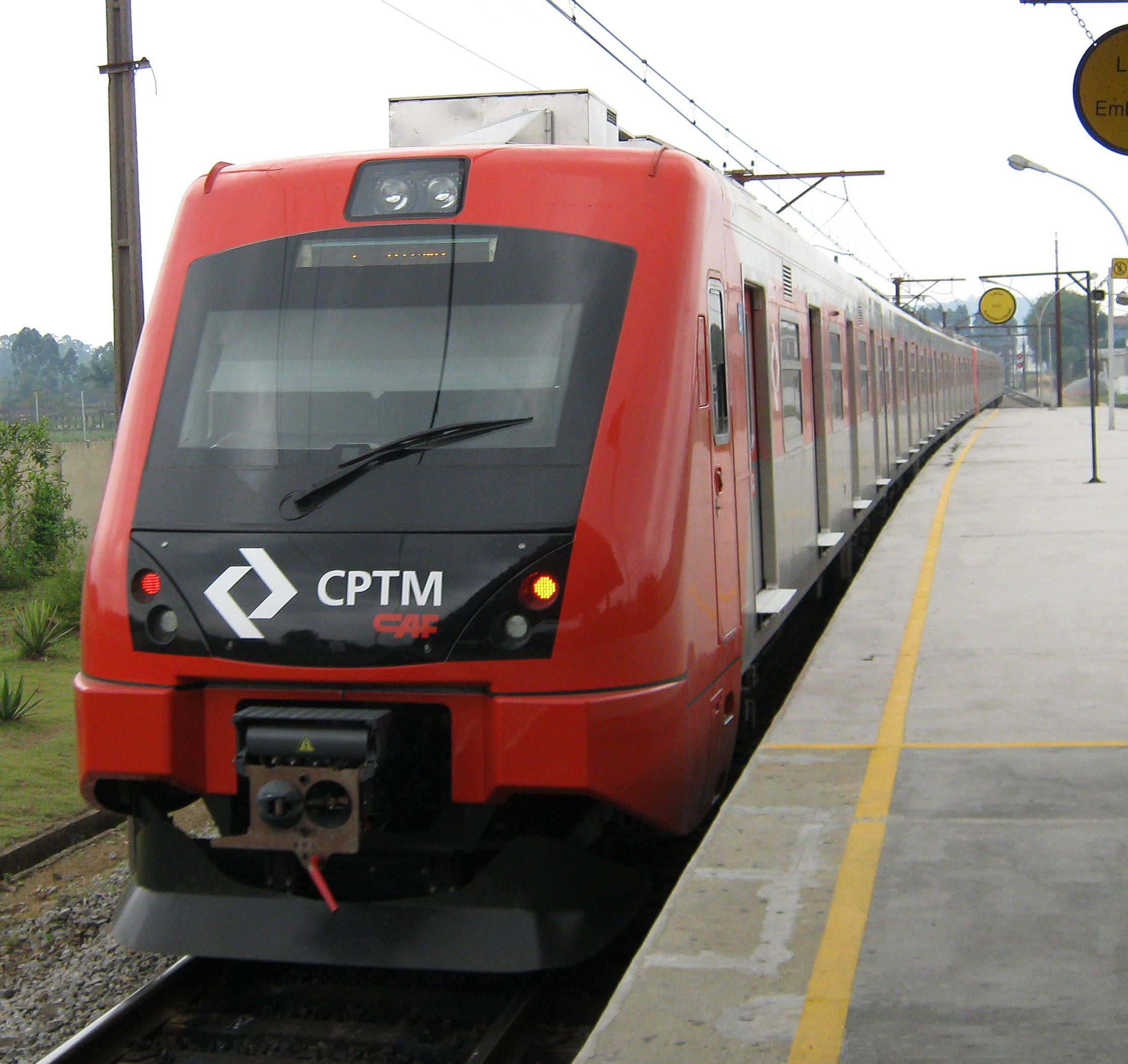 CAF 7000 series coming out of the Station Engenheiro Goulart, for Line 12 - Safira